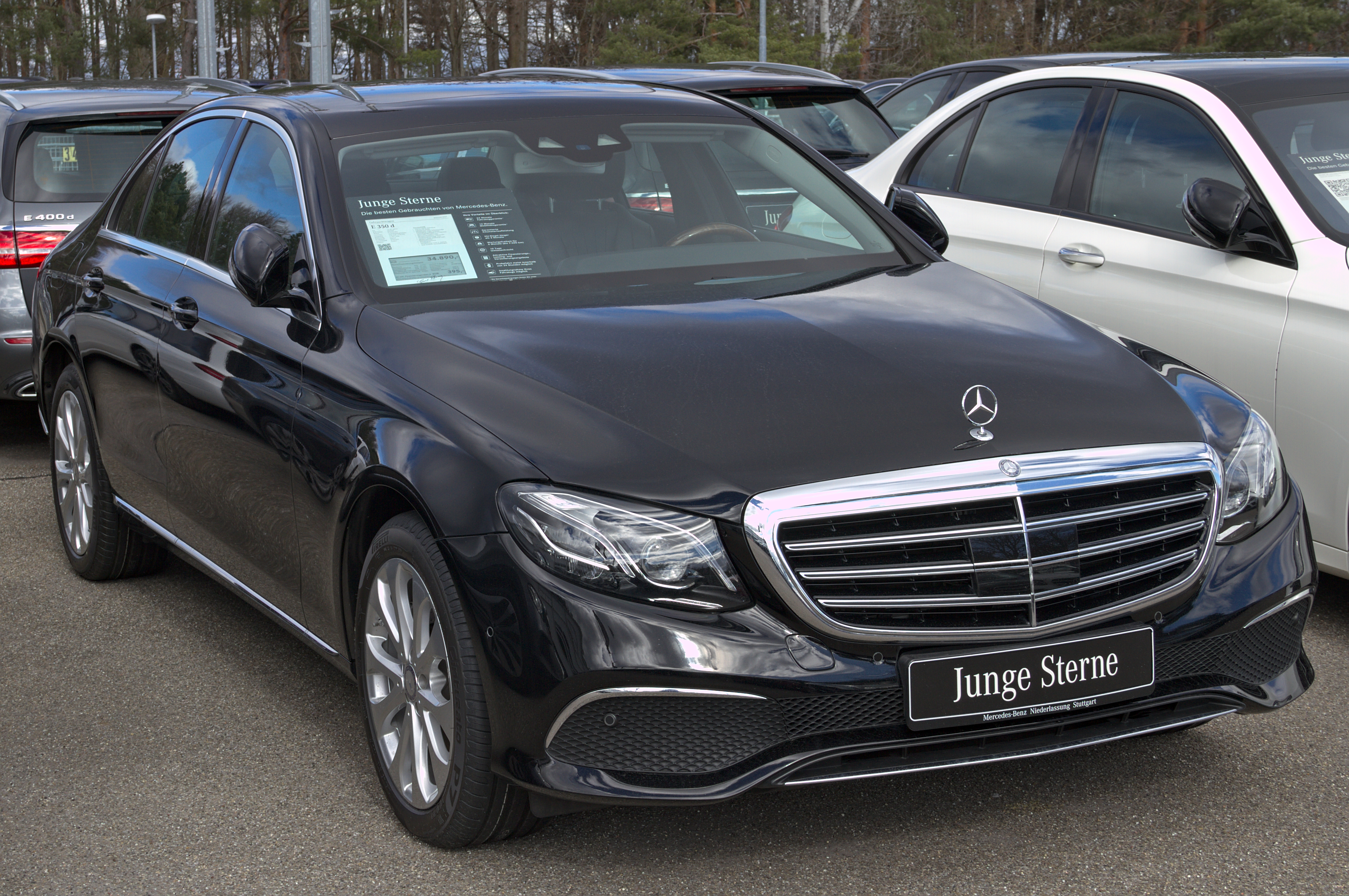 Mercedes-Benz_W213 in Stuttgart-Vaihingen